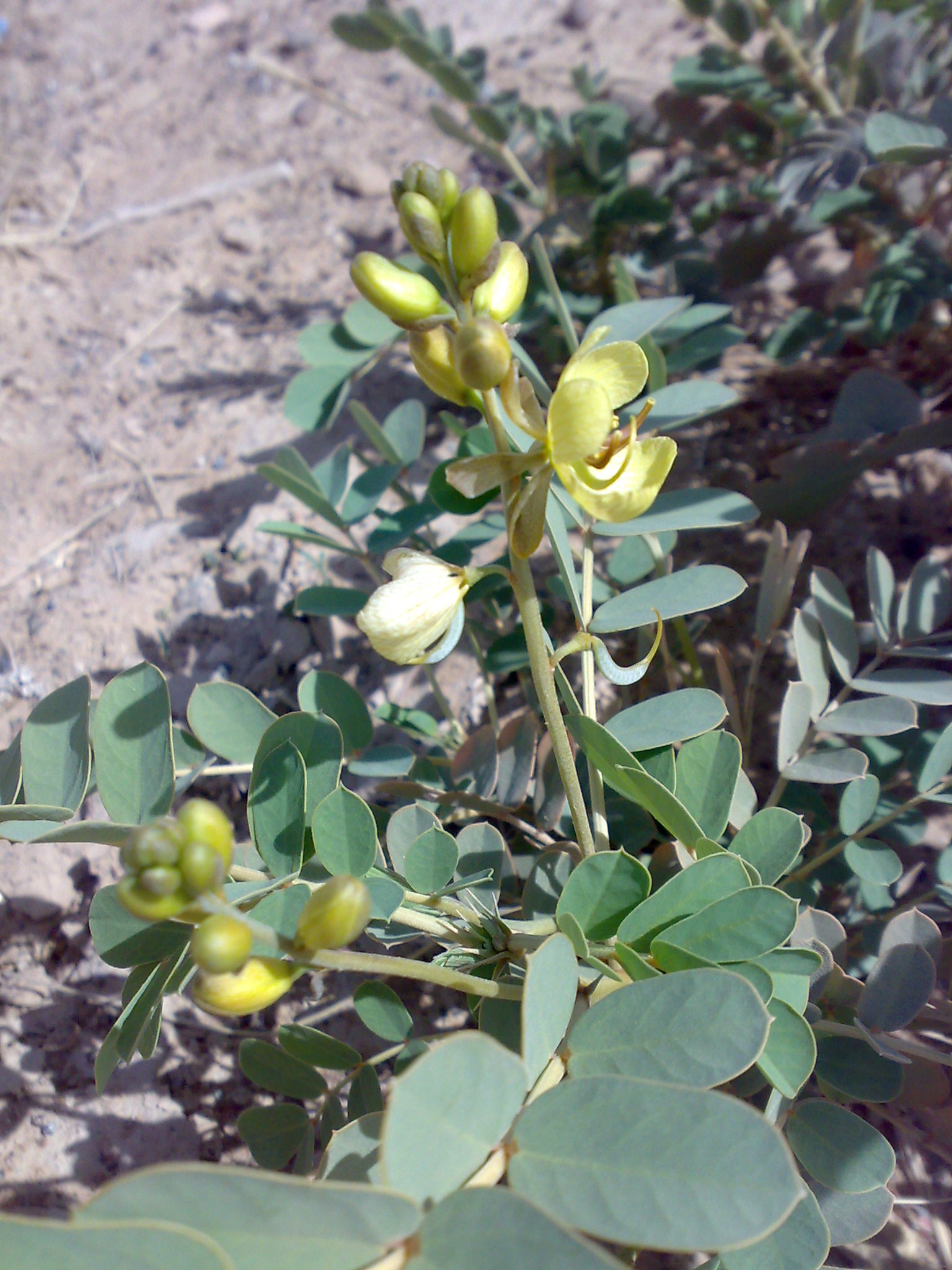 Senna italica, Al Jizer, 30 km west of Hatta, northern Oman